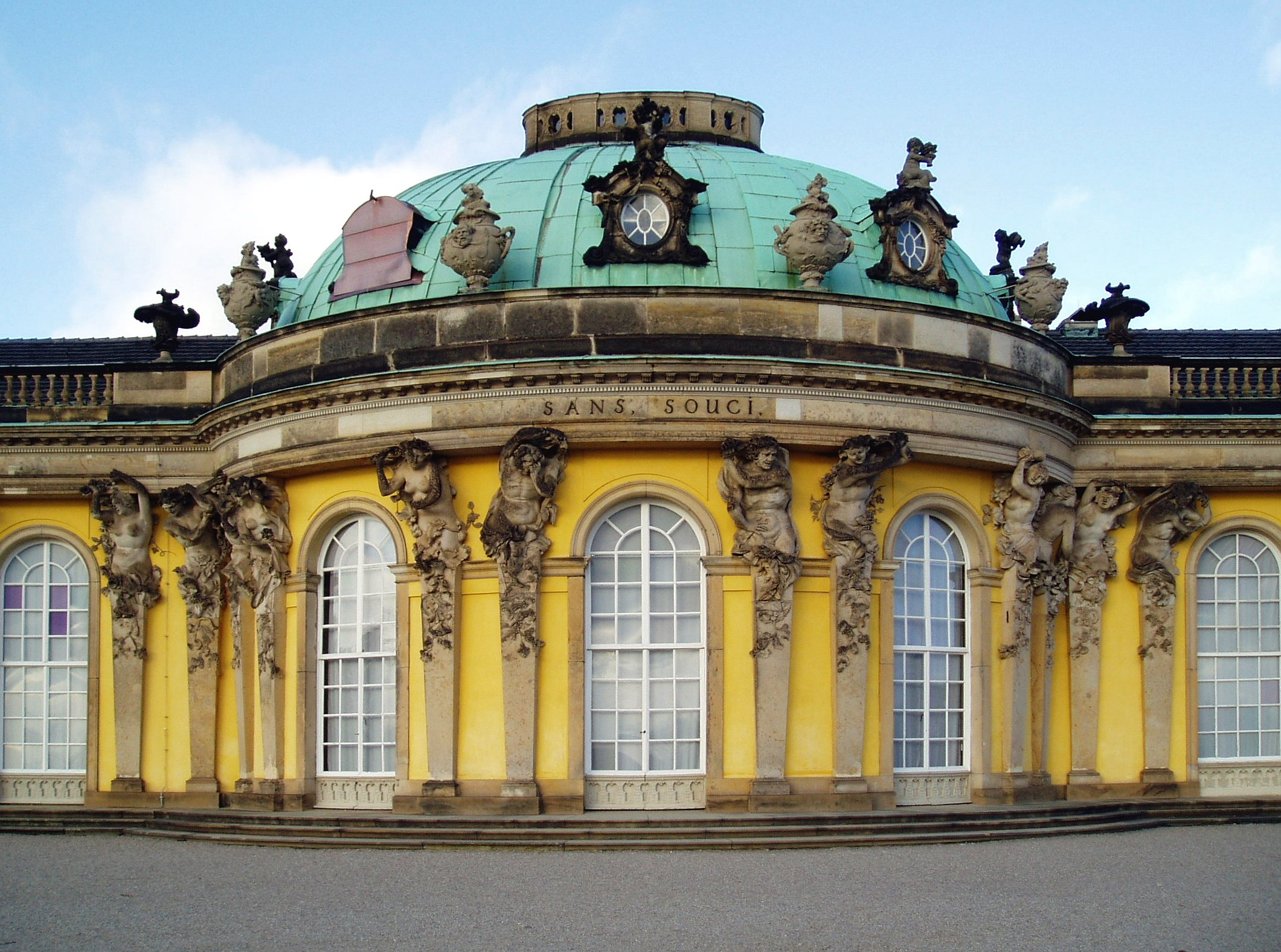 Sanssouci, Potsdam, Germany